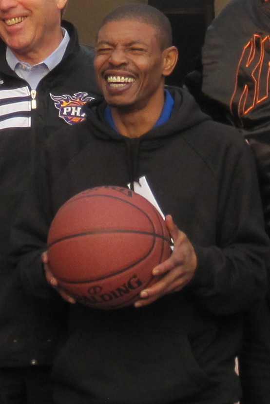 From left, Senator Warner, Colorado Senator Michael Bennet, New Mexico Senator Tom Udall, Former NBA player Muggsy Bogues, New York Congressman Joseph Crowley and Louisiana Congressman Cedric Richmond. Credit: Office of Sen. Mark R. Warner.